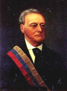 José Ignacio de Márquez (1793-1880) , president of the Republic of New Granada